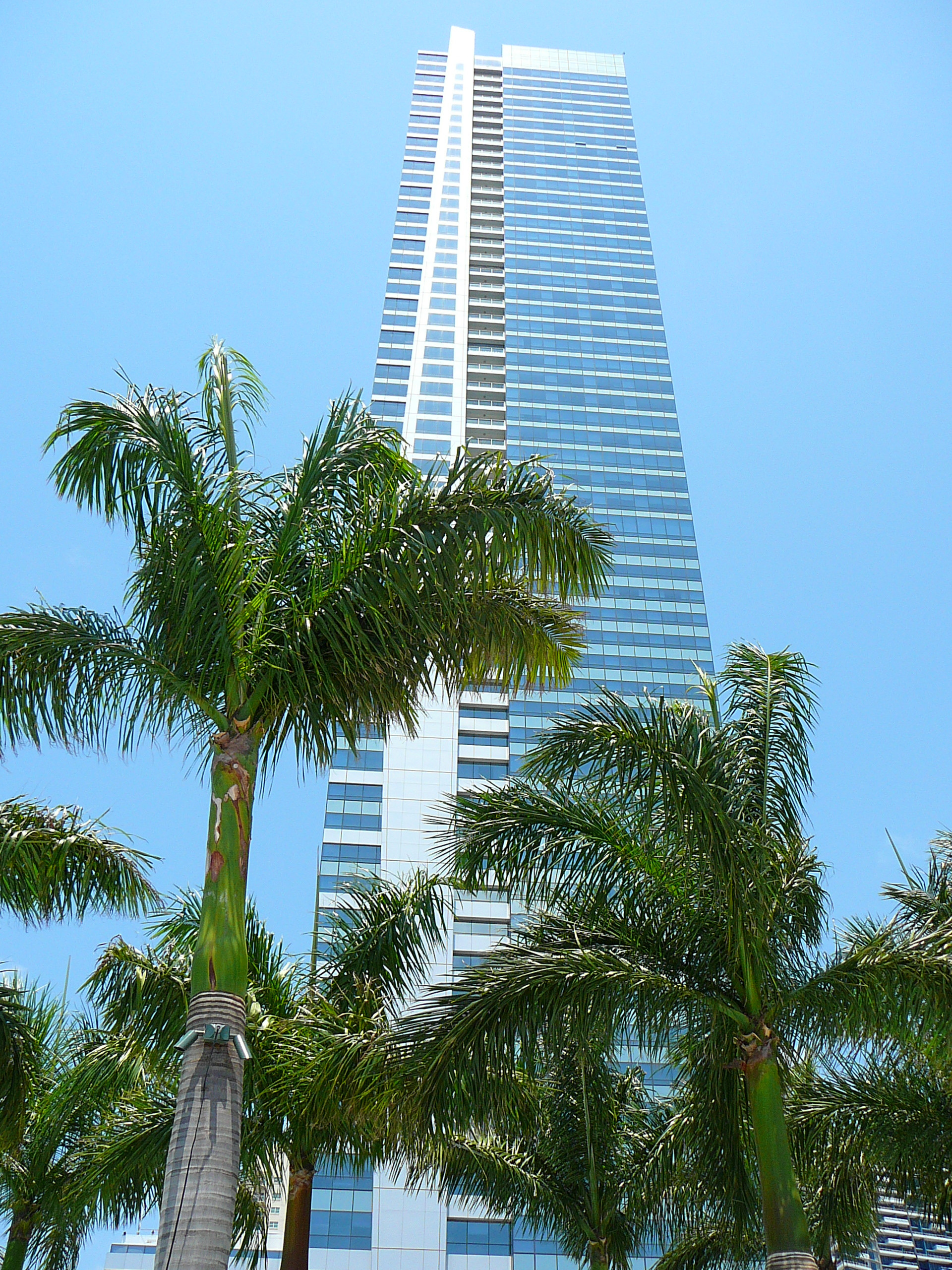 Digital photo taken by Marc Averette. The Four Seasons Hotel Miami tower in downtown Miami, east view from pool deck 5/14/2008